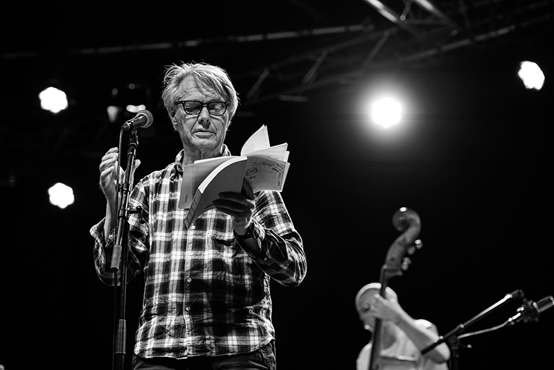 Peter Laugesen music and poetry (The Music of Nicolai Munch-Hansen) in Aarhus 2018